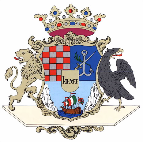 Coat of arms of Modruš-Rijeka county of Kingdom of Croatia in union with Hungary